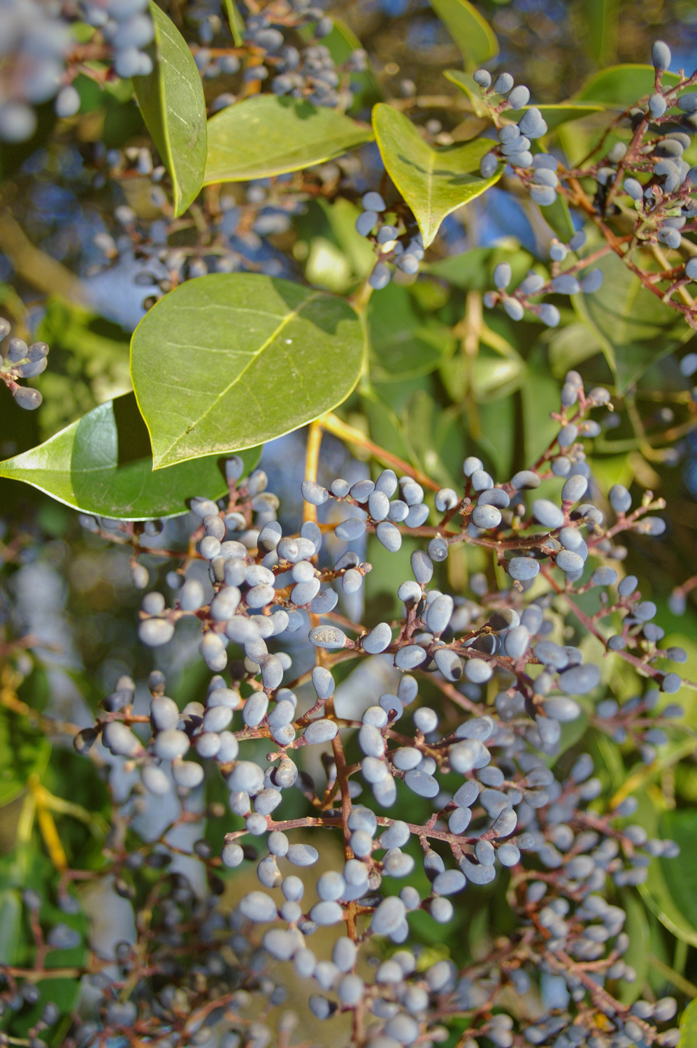 Leaf and Berries of an Broad leaf Privet (Ligustrum lucidum) Because this photograph concerns privacy since this was taken on a private property, only an approximate location is provided: Wagga Wagga, New South Wales, Australia